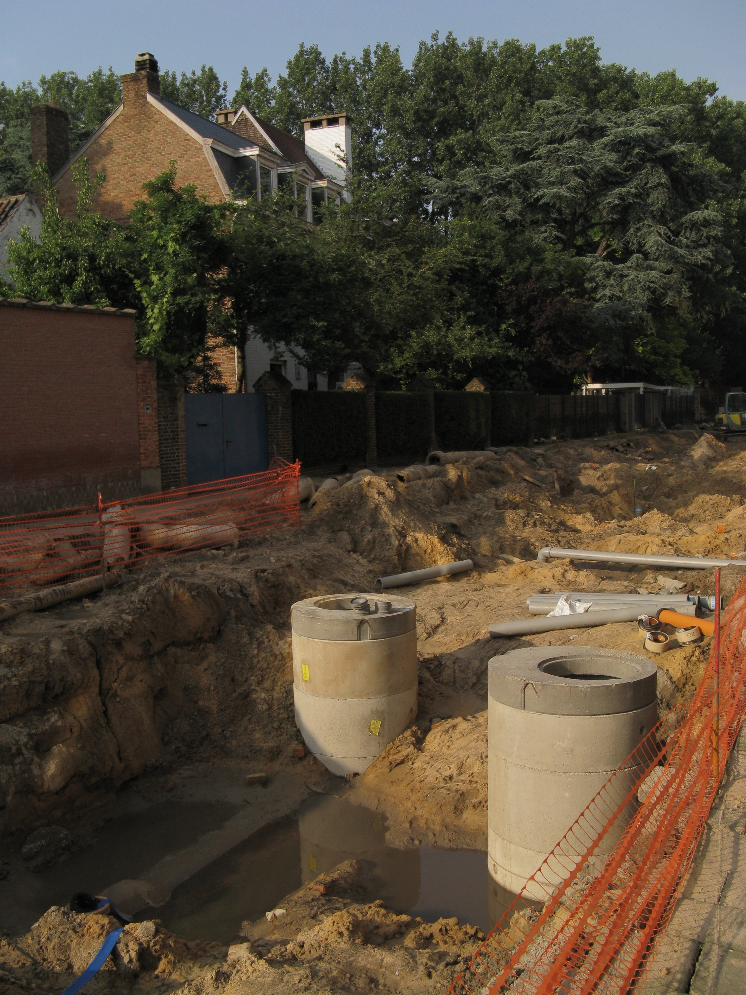 Installation of sewerage collectors at the Wielewaalstraat, Ghent, for the separate treatment of rain and waste water.